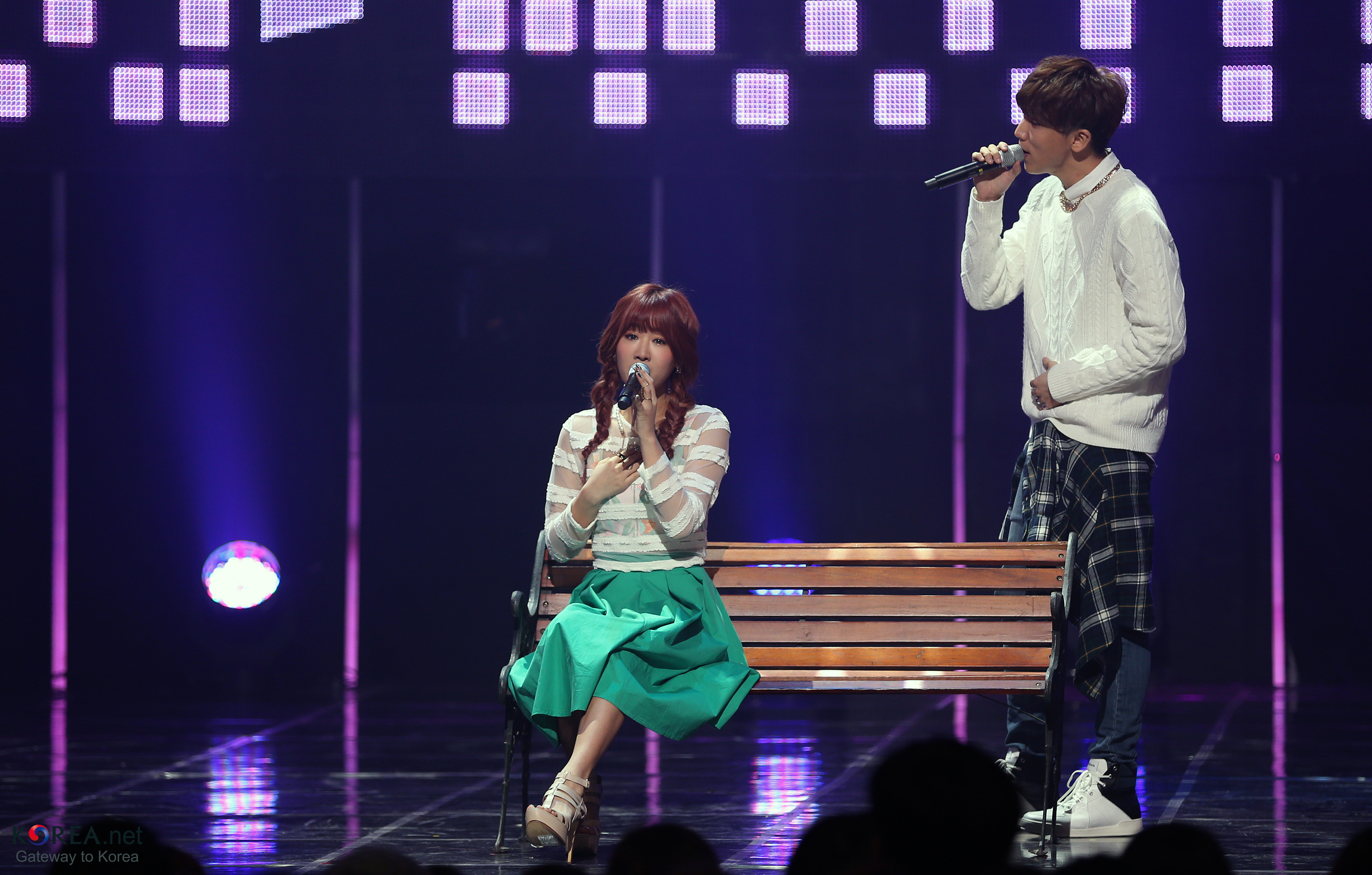 Mcountdown Junggigo x Soyou(Sistar) ‘Some’ CJ E&M Center, Sangam-dong, Mapo-gu, Seoul 2014.03.06. Ministry of Culture, Sports and Tourism Korean Culture and Information Service ( Jeon Han 엠카운트다운 생방송 정기고 x 소유(시스타) ‘썸’ 2014-03-06 CJ E&M 센터 문화체육관광부 해외문화홍보원 코리아넷 전한